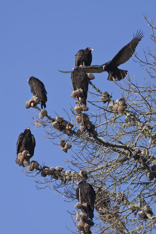 Turkey Vulture (Cathartes aura). This vulture roost was seen very near the roadway in Morro Bay State Park, Morro Bay, CA. There were 16 birds in this particular tree. After individuals spread their wings to dry, they flew off and most had gone by 0930.